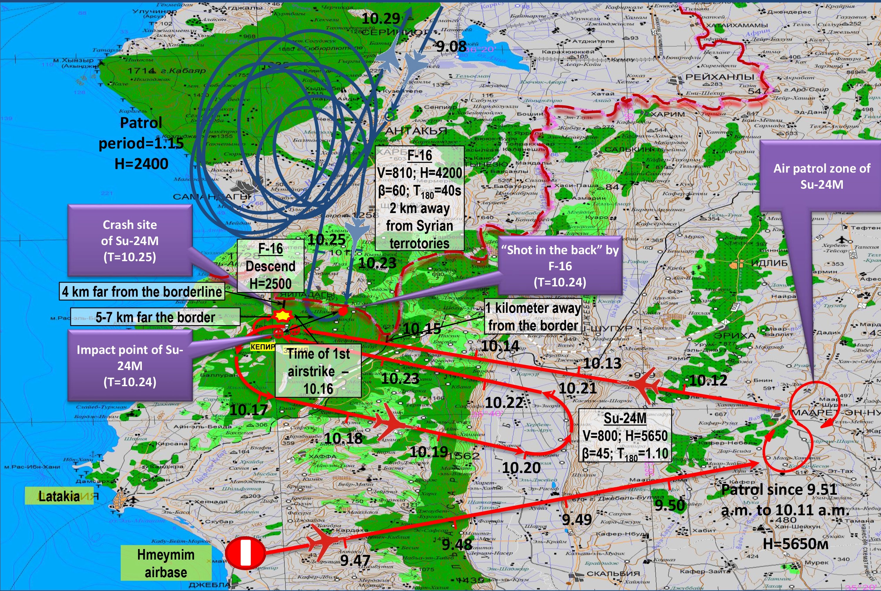 Updated chart of the Russian Sukhoi Su-24 shootdown in Turkey.